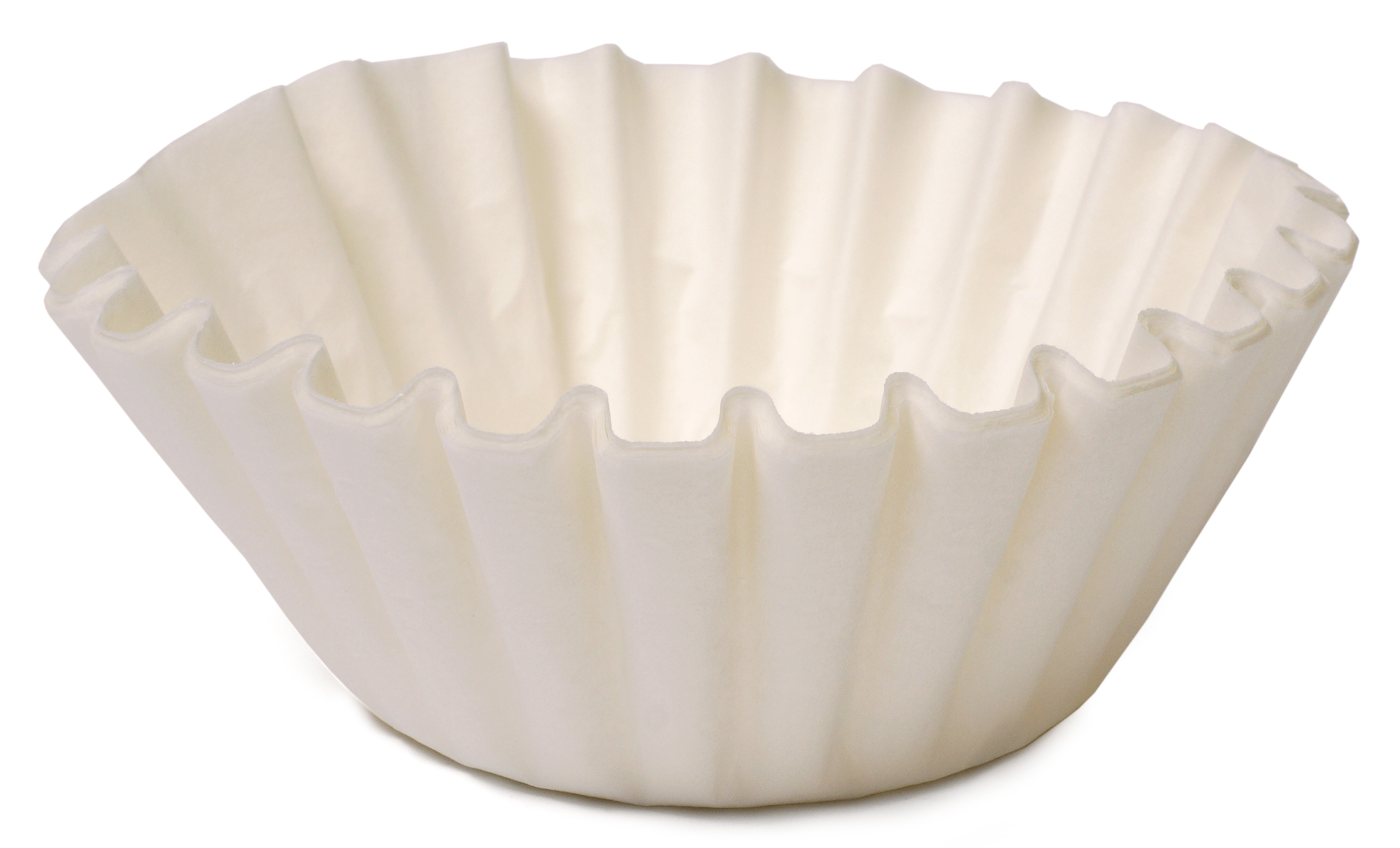 A small stack of standard bleached white coffee filters.